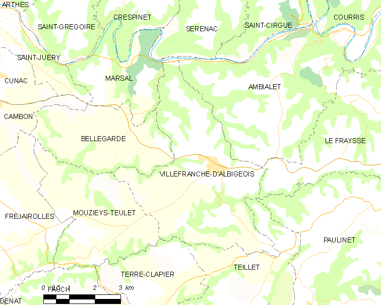 Map of French municipality Villefranche-d'Albigeois